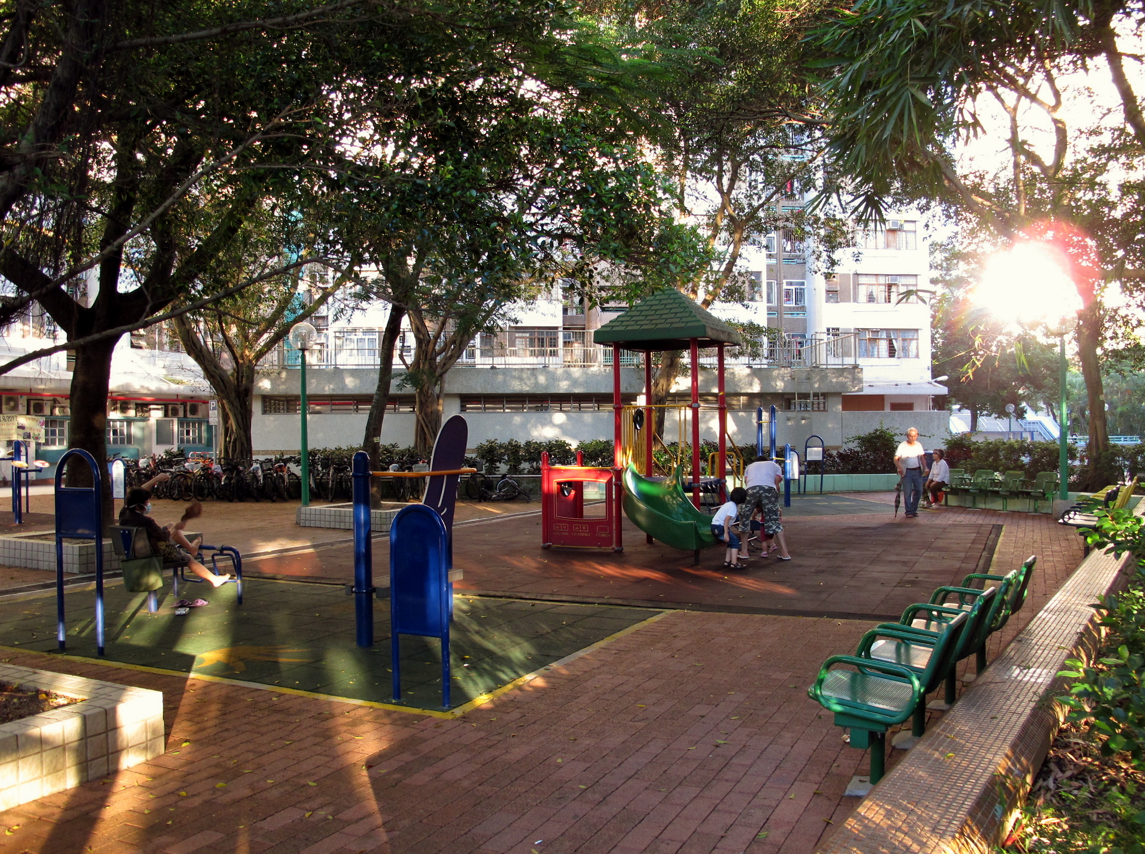 Kwong Fok Estate Children Play Area